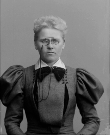 Photograph of the Finnish writer and politician Hilda Käkikoski (1864–1912).